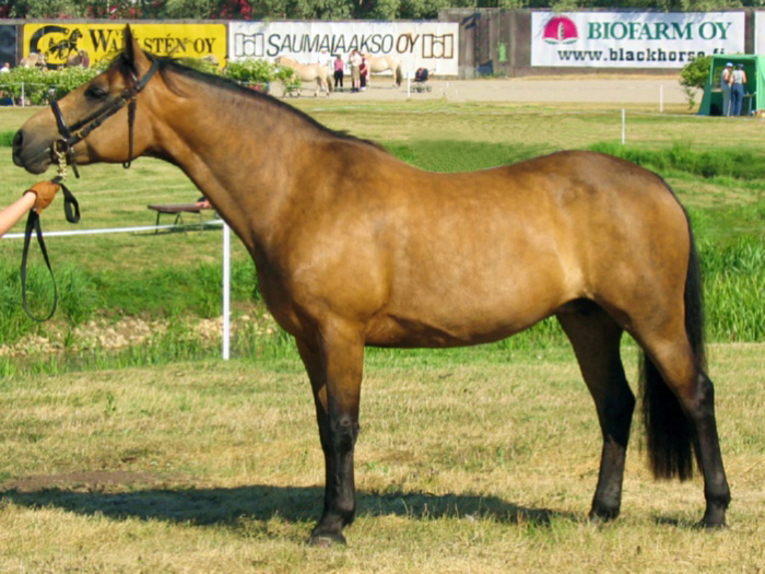 Connemara mare Enghojs Irish Golden Rose